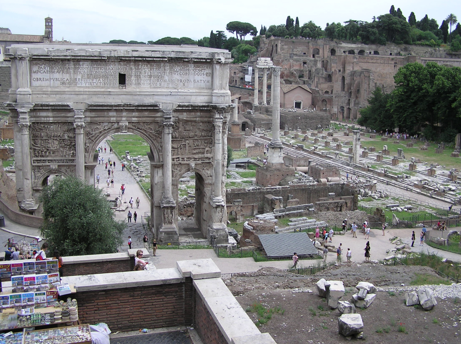 The Roman Forum, Rome, Italy. The arch was erected by Septimius Severus (Roman Emperor).